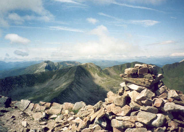 the summit cairn on Am Bodach. showing the narrow ridges typical of the Mamore range